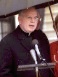 Terence Cooke